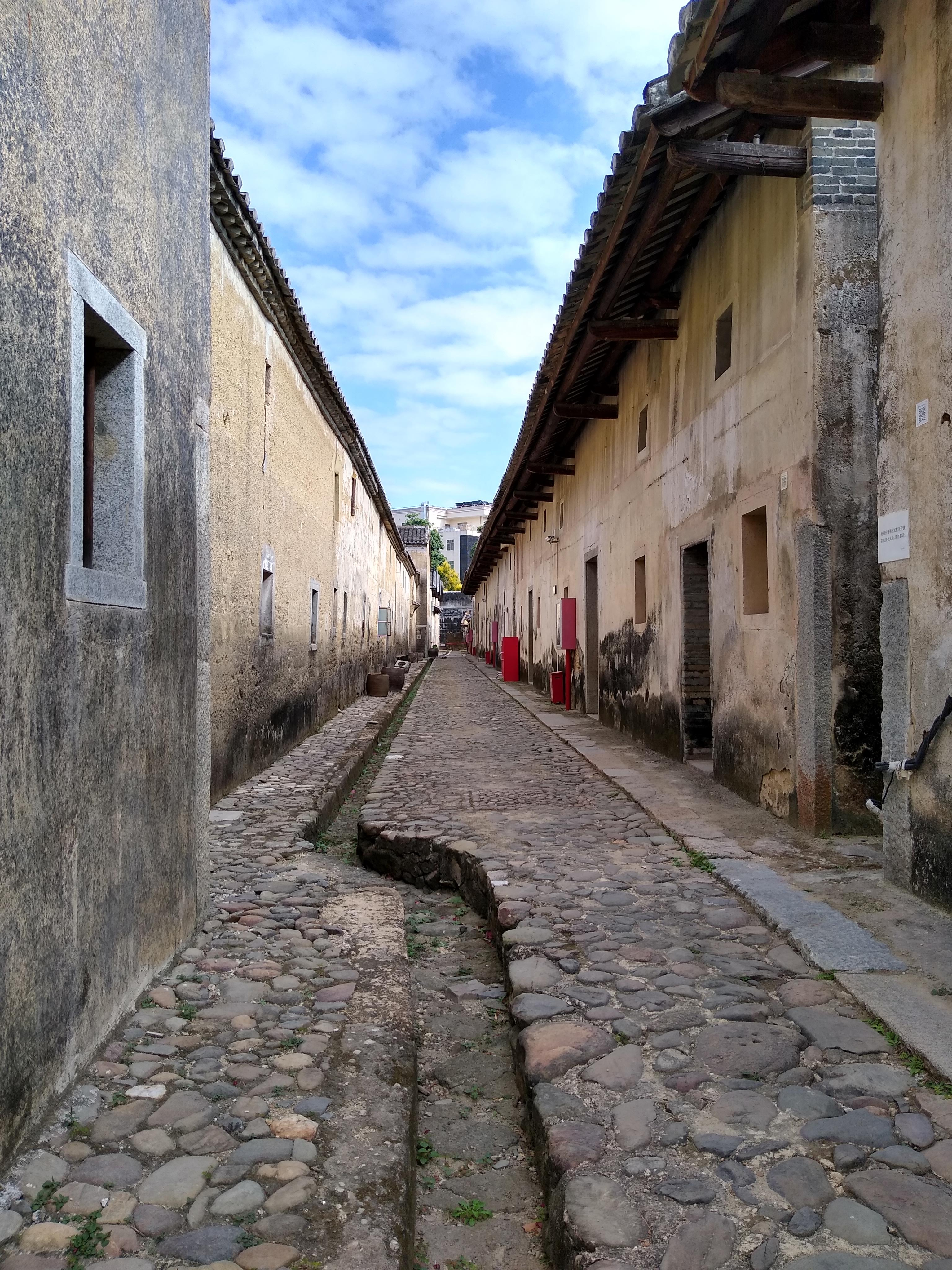 A gutter in the middle of a stone street in Dawanshiju (大万世居), an old Hakka walled village in Pingshan District, Shenzhen.